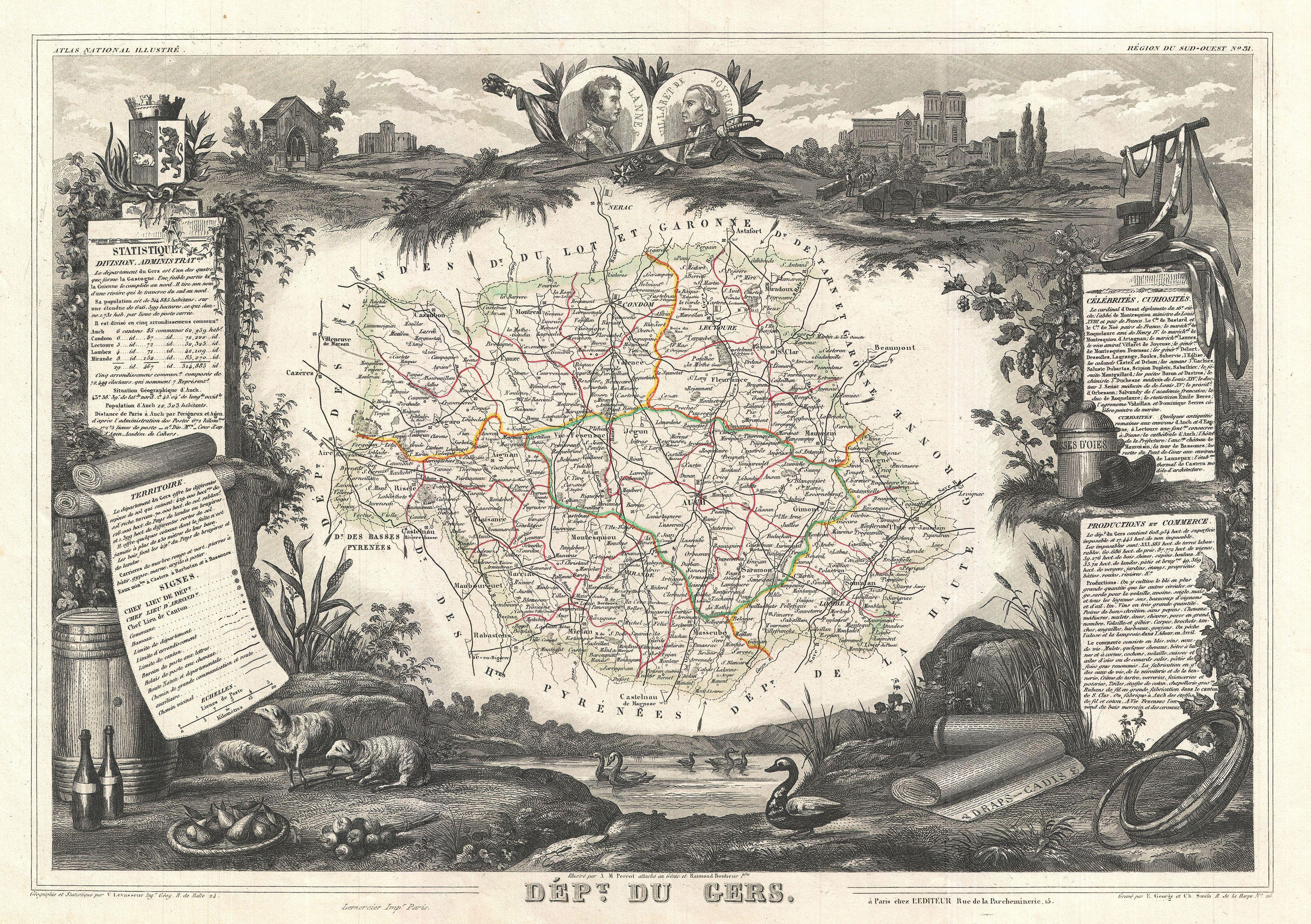 This is a fascinating 1852 map of the French department of Gers, France. This area of is known especially for its production of Armagnac Brandy and Floc de Gascogne, a sweet wine. It is also home to Côtes de Gascogne, a wine-growing district in Gascony producing white wine. This area is also famous for its foie gras and wild mushrooms. The whole is surrounded by elaborate decorative engravings designed to illustrate both the natural beauty and trade richness of the land. There is a short textual history of the regions depicted on both the left and right sides of the map. Published by V. Levasseur in the 1852 edition of his Atlas National de la France Illustree.